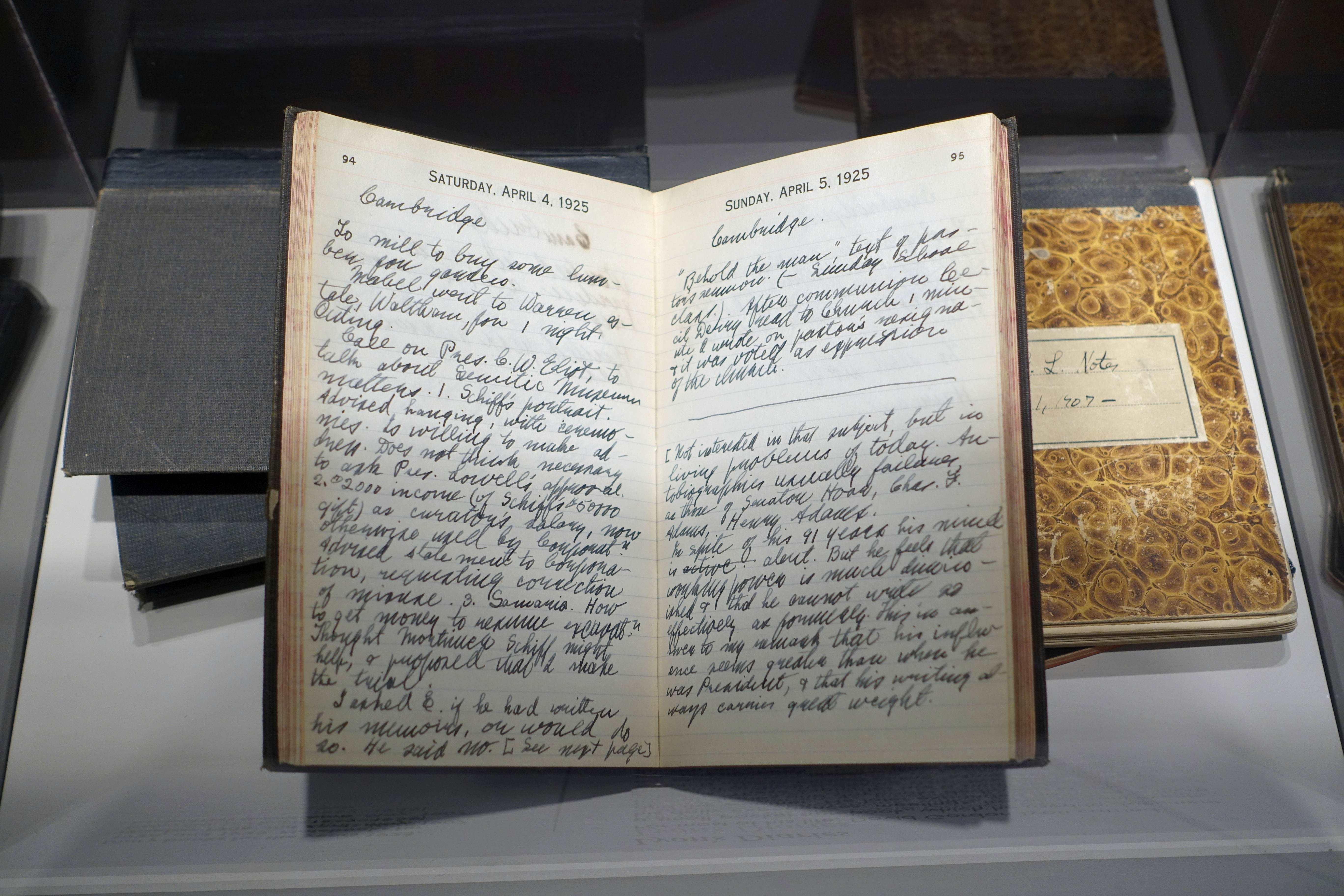 Exhibit in the Harvard Semitic Museum, Harvard University - Cambridge, Massachusetts, USA. This work is old enough so that it is in the public domain.